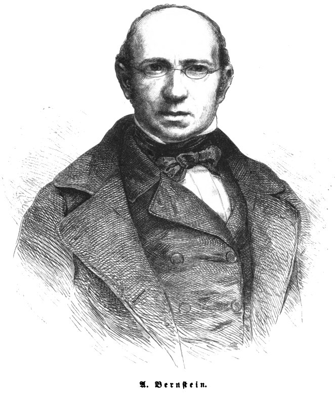 no caption